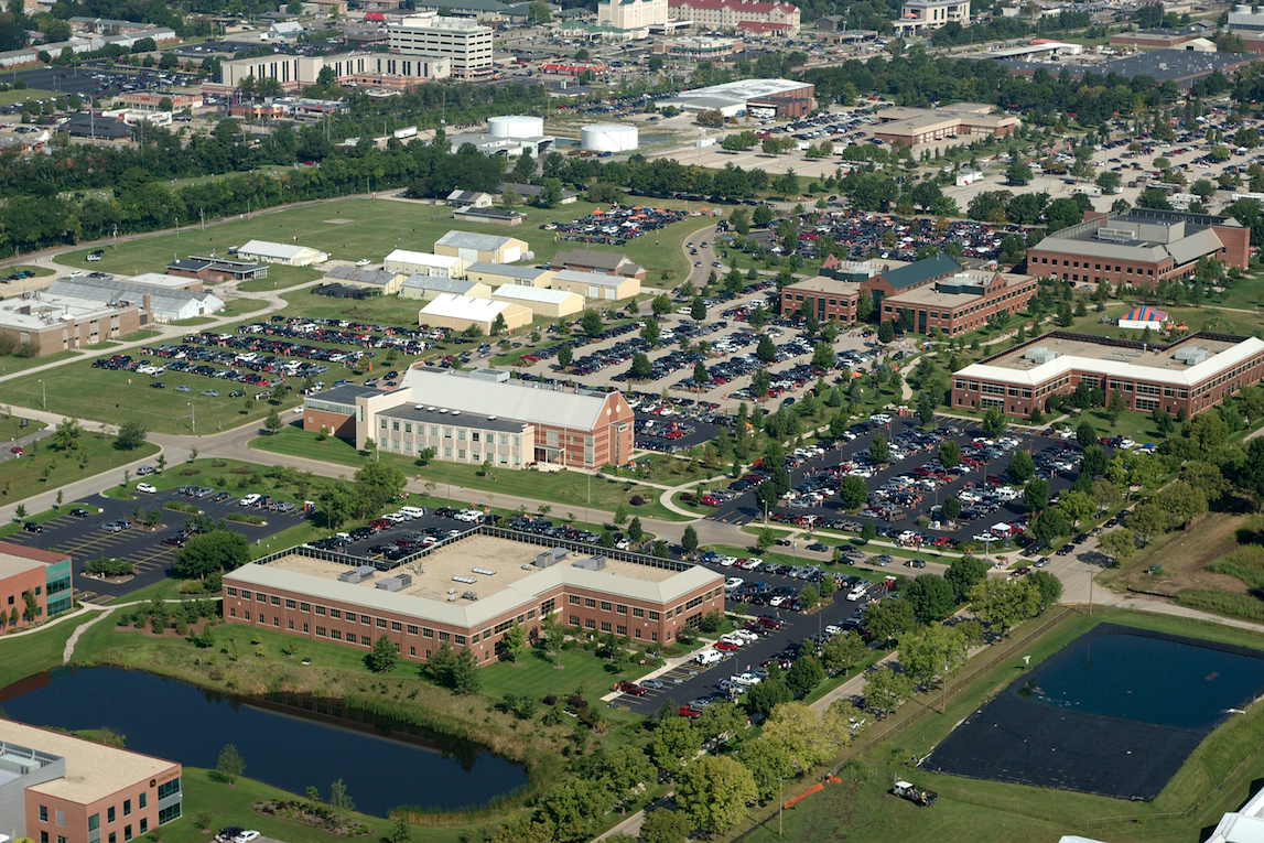 Aerial View of the University of Illinois Research Park